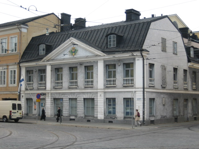 Sederholm house, Aleksanterinkatu 18 / Katariinankatu 5, Helsinki. Oldest stone building in central Helsinki, built 1757.